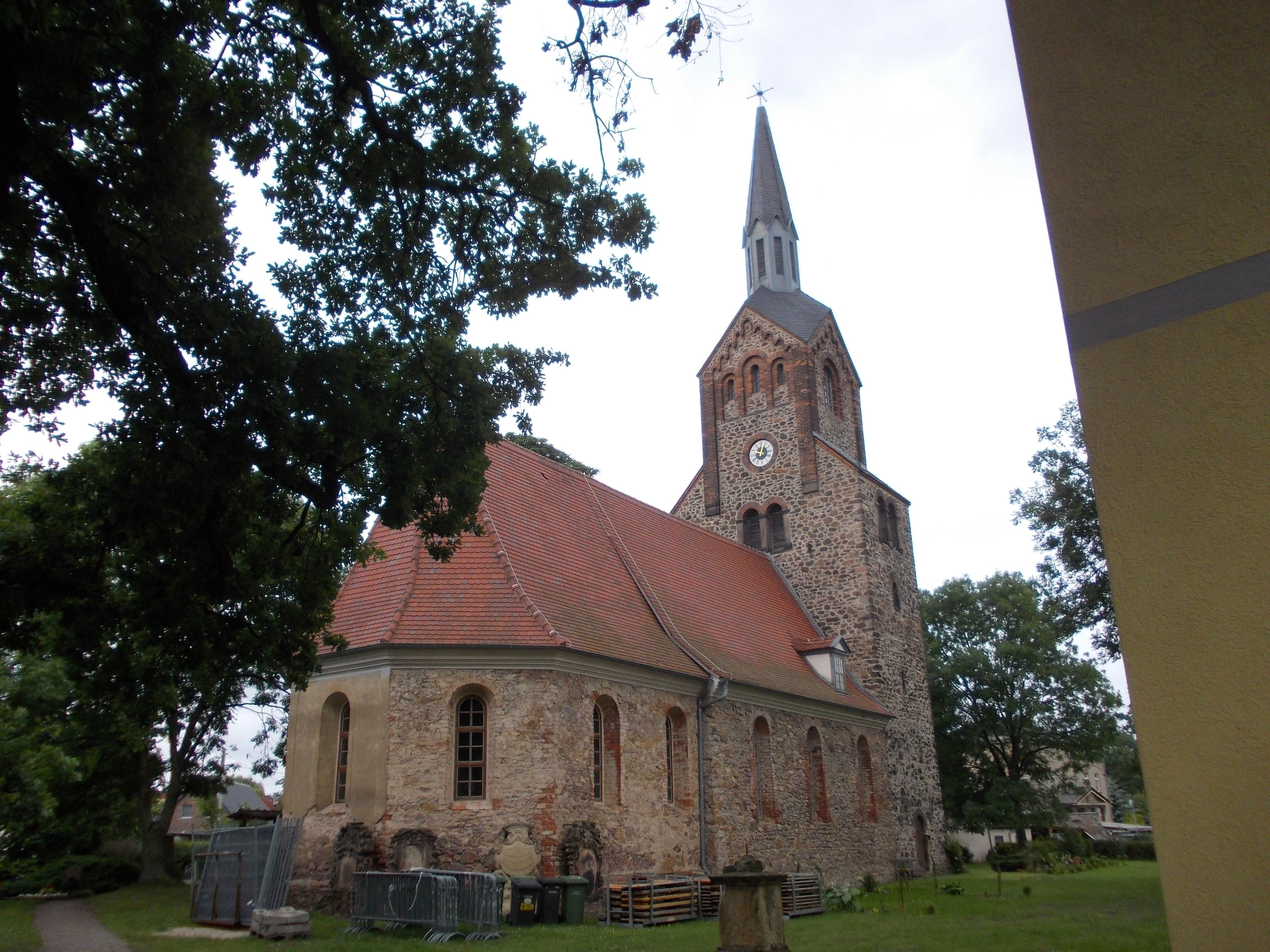 St. Anne and St. Catherine Church in Gütz (Landsberg, district: Saalekreis, Saxony-Anhalt)